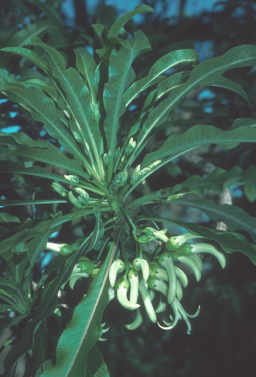 Clermontia pyrularia